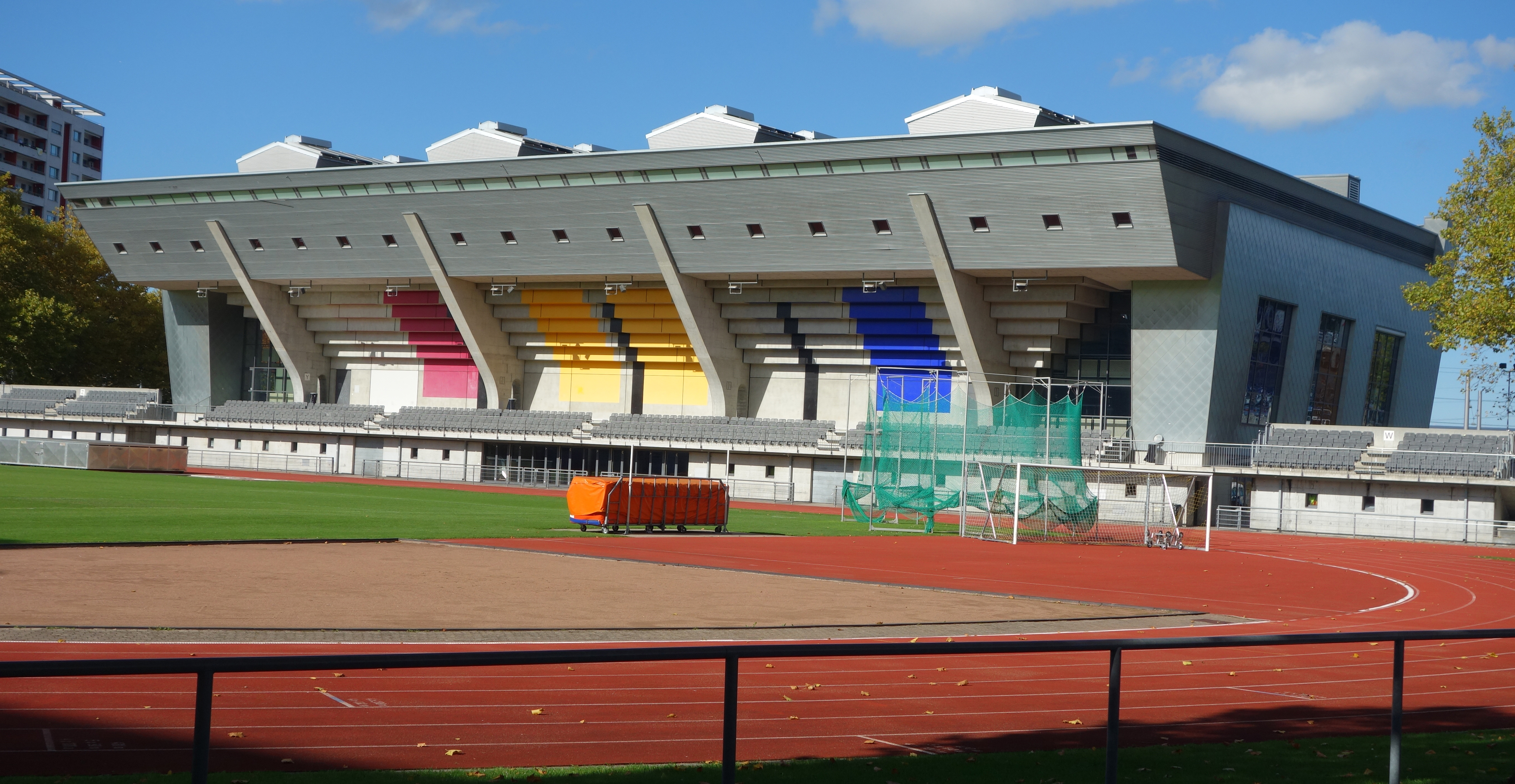 Wankdorfhalle sports hall in Bern, Switzerland, northeast side.